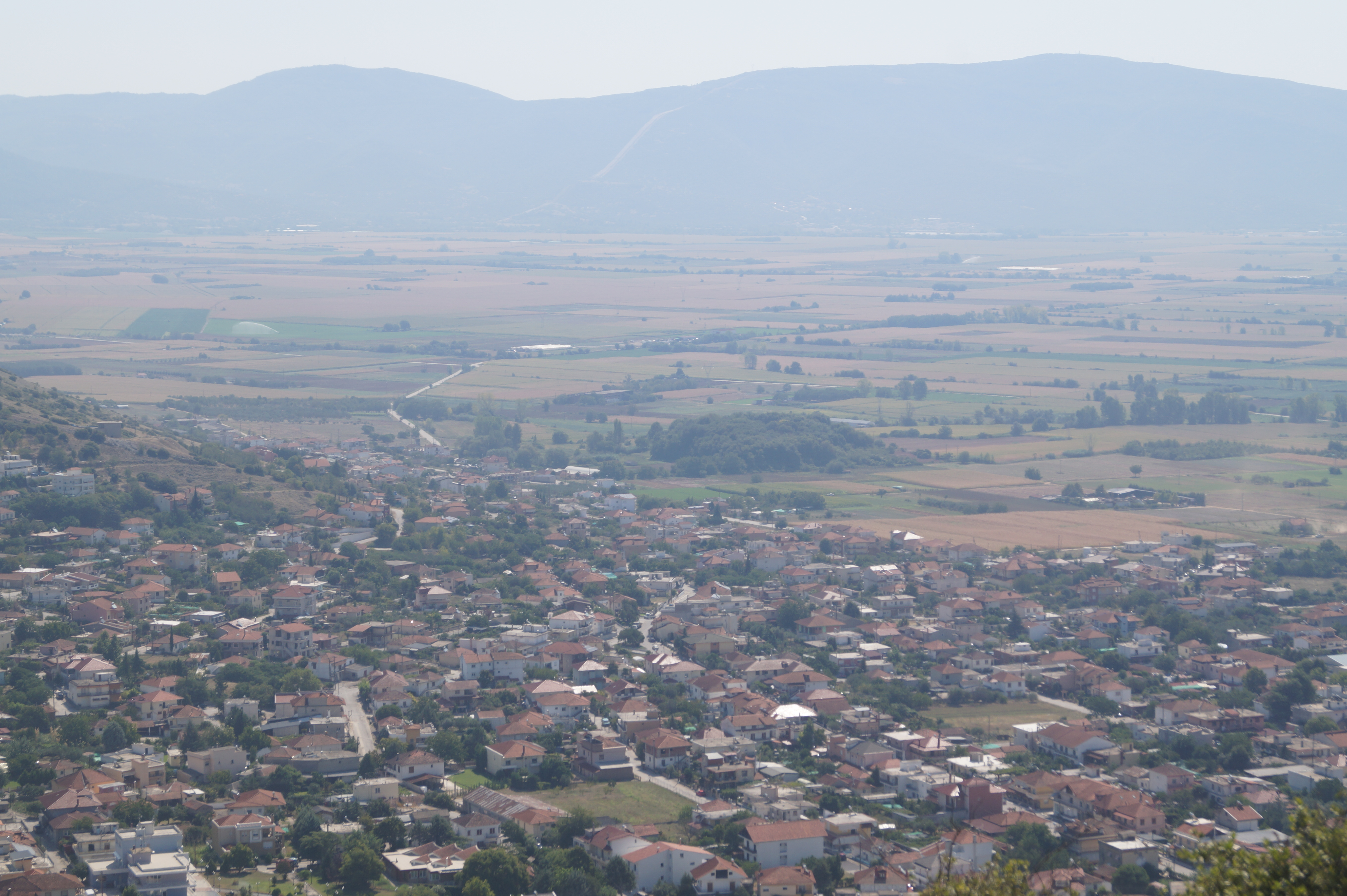 Krinides, Makedonia, Greece: View from the acropolis of Philippi on Krinides and the prehistoric tell Dikili Tash.